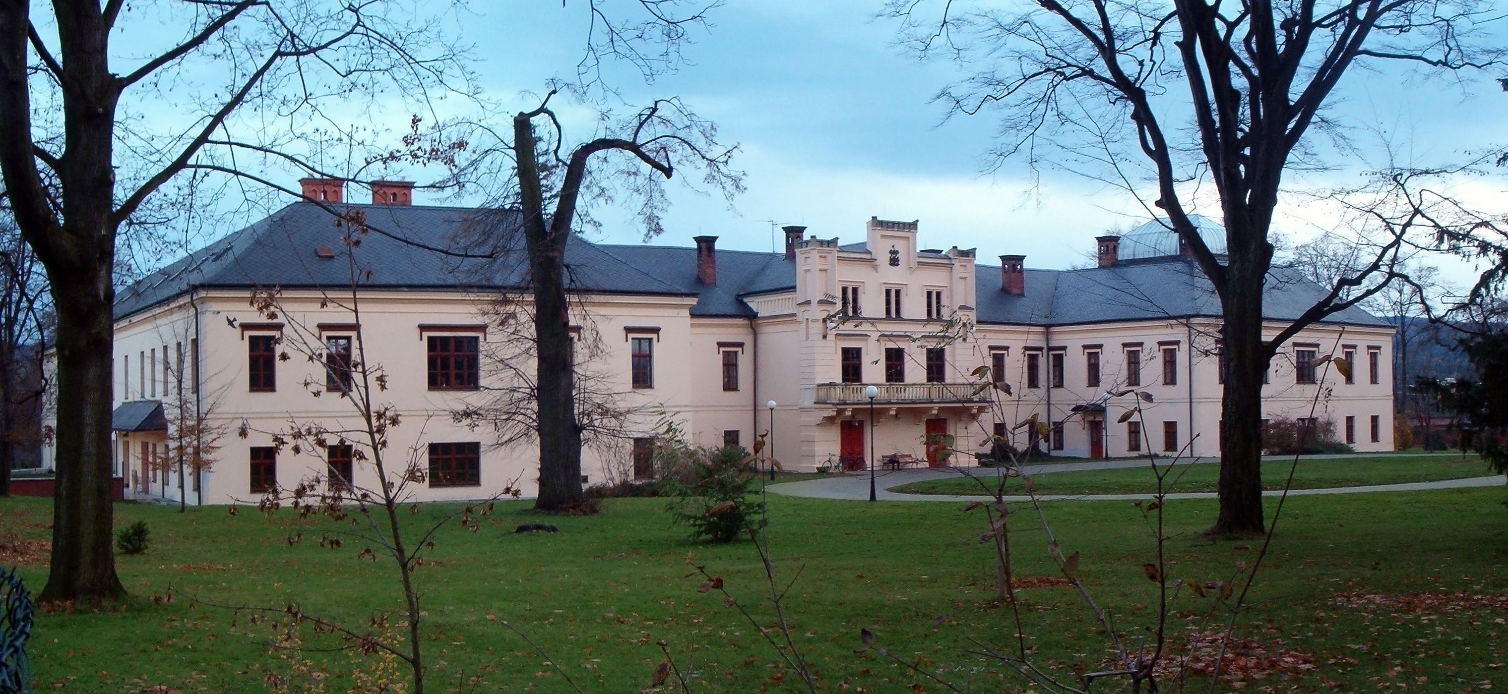 castle in czech village Dolni Zivotice